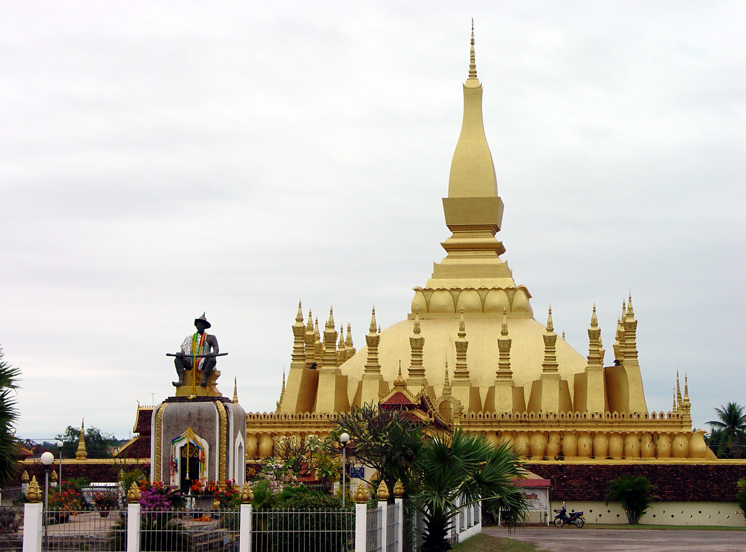 Vientiane, Laos 20th-century restoration of 1566 original Legendarily considered an Ashokan foundation, the site was determined by archaeologists to date originally back to Khmer times (11th-13th century). The stupa, seen here, was built in 1566 during the reign of King Setthathirat, destroyed in the 1828-1829 sack of Vientiane, and rebuilt in the 1930s.